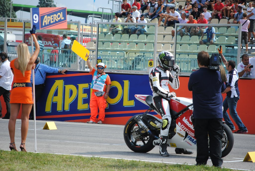 Niccolo Canepa on Bimota HB4 at Misano